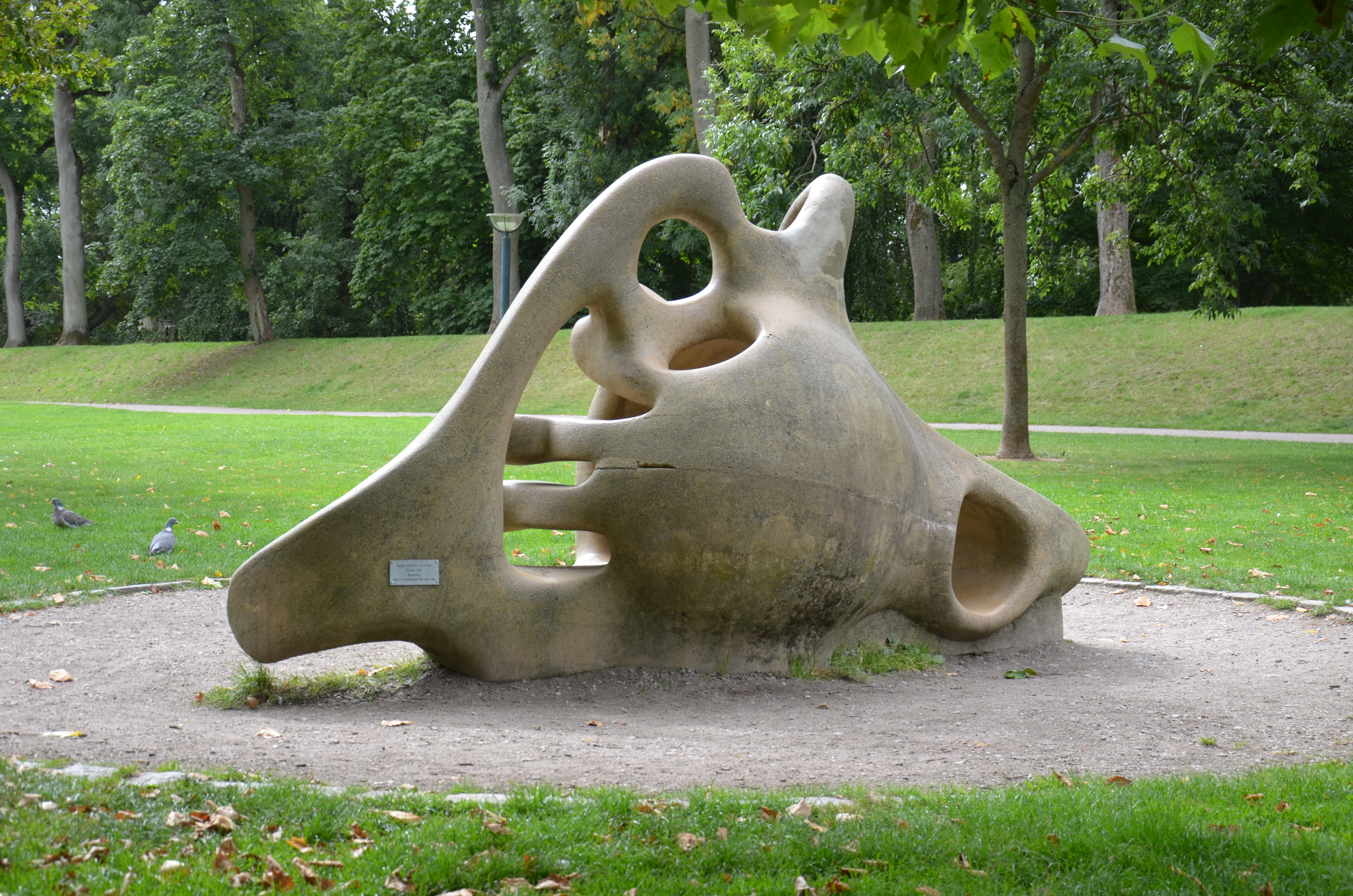 Egon Möller-Nielsen's Tufsen, Stadsparken i Lund